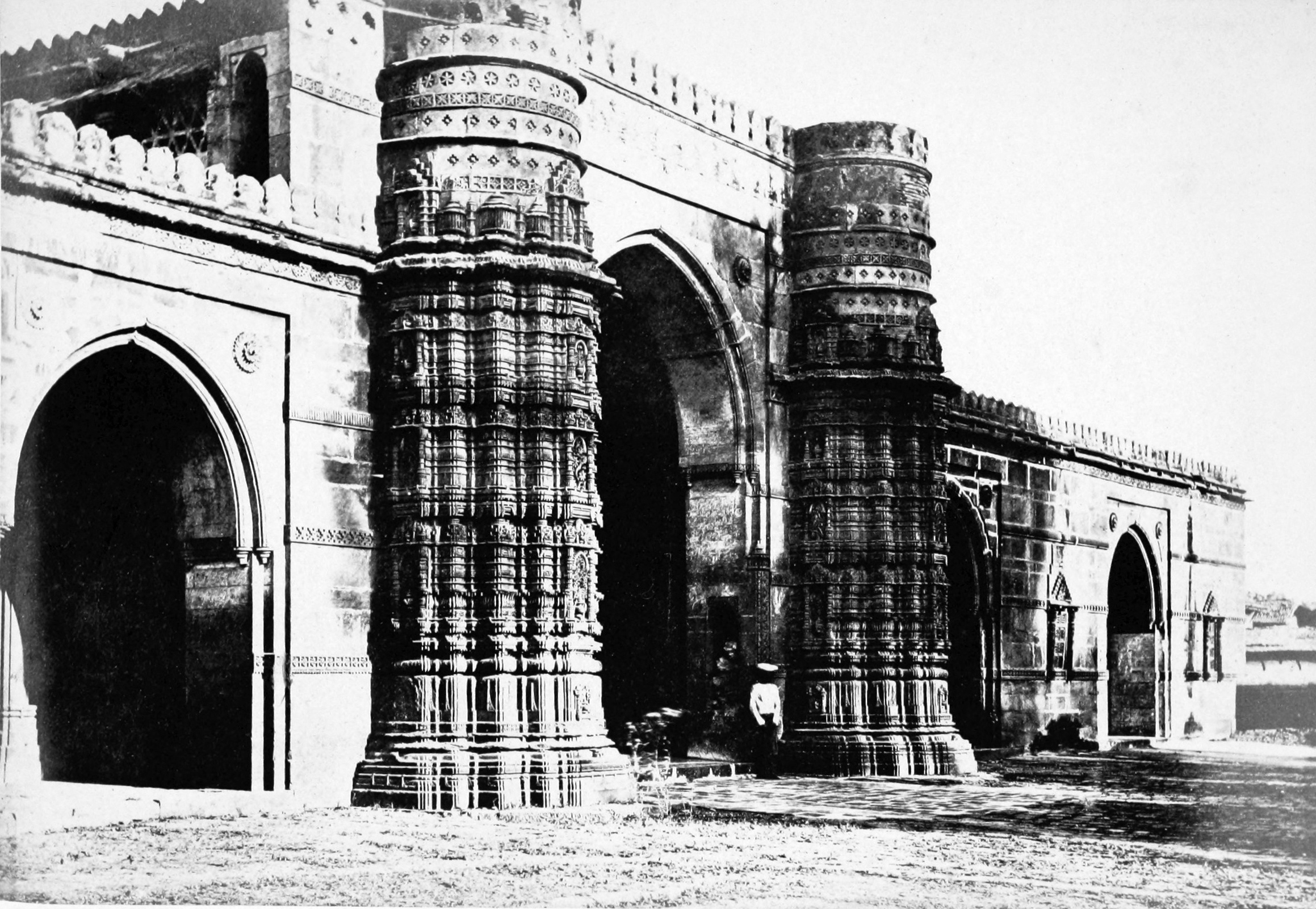 Image taken from: Title: "Architecture at Ahmedabad, the Capital of Goozerat, photographed by Colonel Biggs, ... With an historical and descriptive sketch, by T. C. H., ... and architectural notes by J. Fergusson, etc" Author: HOPE, Theodore Cracraft - Sir, K.C.S.I Contributor: BIGGS, Thomas. Contributor: FERGUSSON, James - Architect Shelfmark: "British Library HMNTS 10057.f.17.", "British Library OC V 6665" Page: 233 Place of Publishing: London Date of Publishing: 1866 Issuance: monographic Identifier: 001730119 Note: The colours, contrast and appearance of these illustrations are unlikely to be true to life. They are derived from scanned images that have been enhanced for machine interpretation and have been altered from their originals. If you wish to purchase a high quality copy of the page that this image is drawn from, please order it here. Please note that you will need to enter details from the above list - such as the shelfmark, the page, the book's volume and so on - when filling out your order. Following this or the link above will take you to the British Library's integrated catalogue. You will be able to download a PDF of the book this image is taken from, as well as view the pages up close with the 'itemViewer'. Click on the 'related items' to search for the electronic version of this work. Click here to see all the illustrations in this book and click here to browse other illustrations published in books in the same year. Please click on the tags shown on the right-hand side for other ways to browse the illustrations.